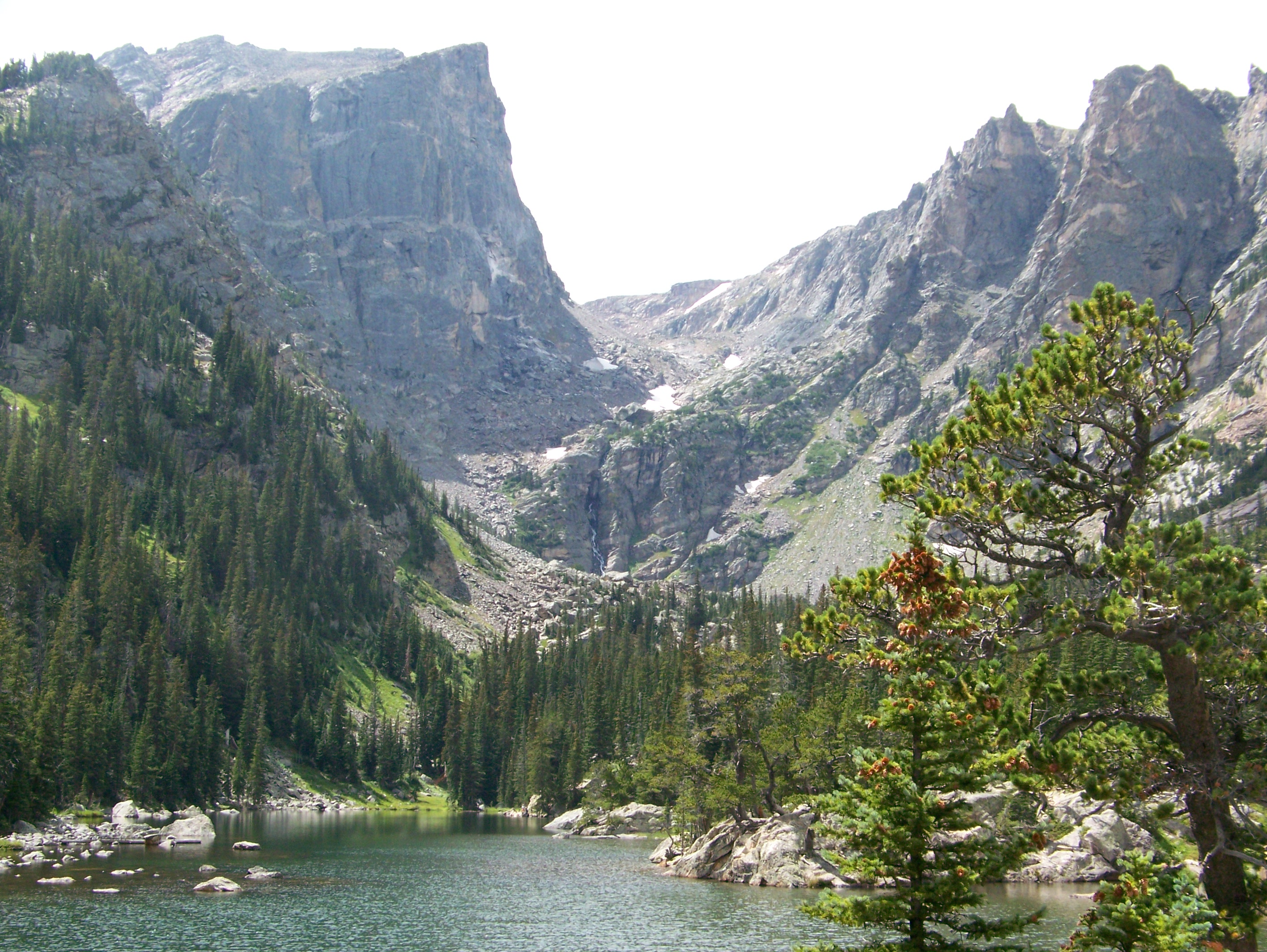 Taken along the Eastern Shore of Dream Lake, aimed towards the Continental Divide, with Hallets peak to the left.